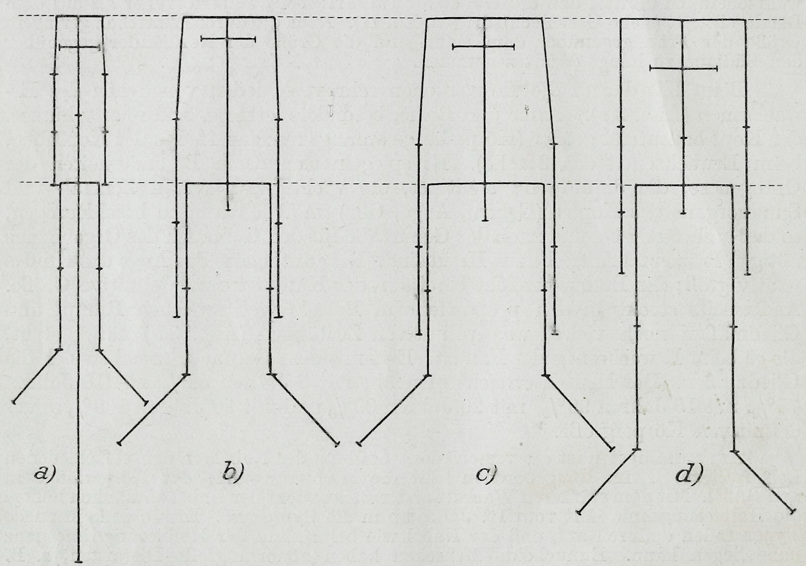 An anatomical illustration from the 1921 German edition of Anatomie des Menschen: ein Lehrbuch für Studierende und Ärzte with latin terminology. Labels: A) black lemur........ original German text: Halbaffe (Lemur macaco) B) chimpanzee....... original German text: Schimpanse C) gorilla................ original German text: Gorilla D) human............... original German text: Mensch